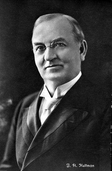 Johan Alfred Hultman